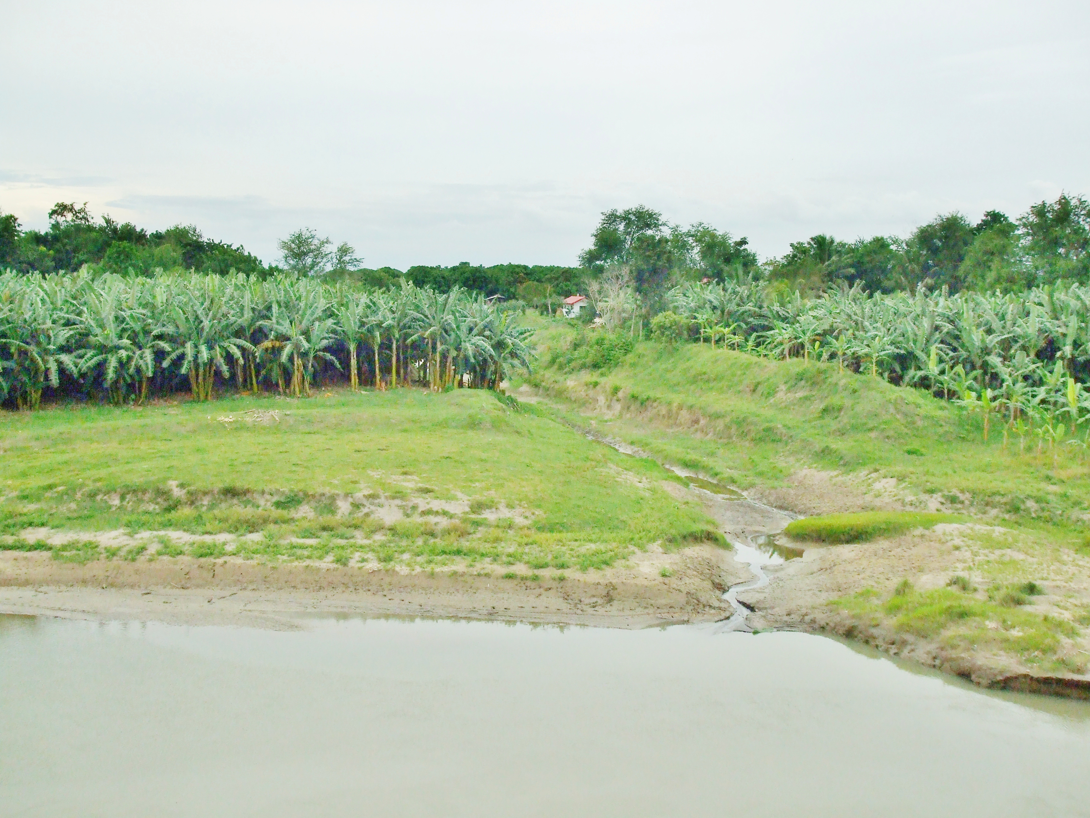 Banana Plantation